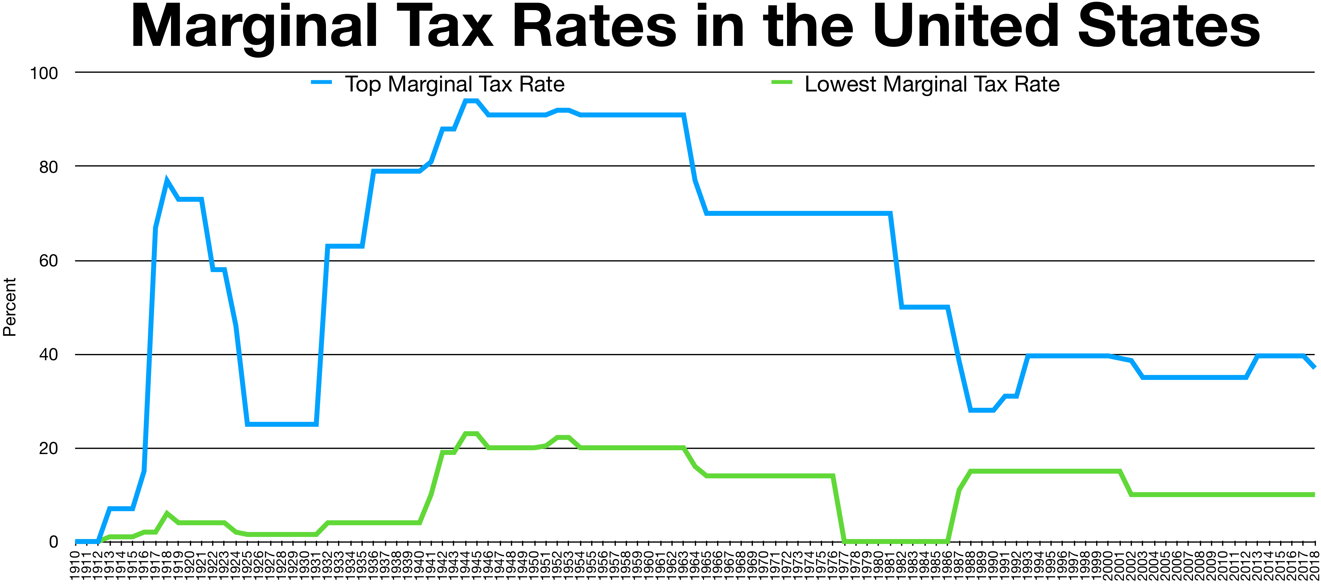 Historical graph of the marginal tax rates for the highest and lowest income earners, 1913-2015.